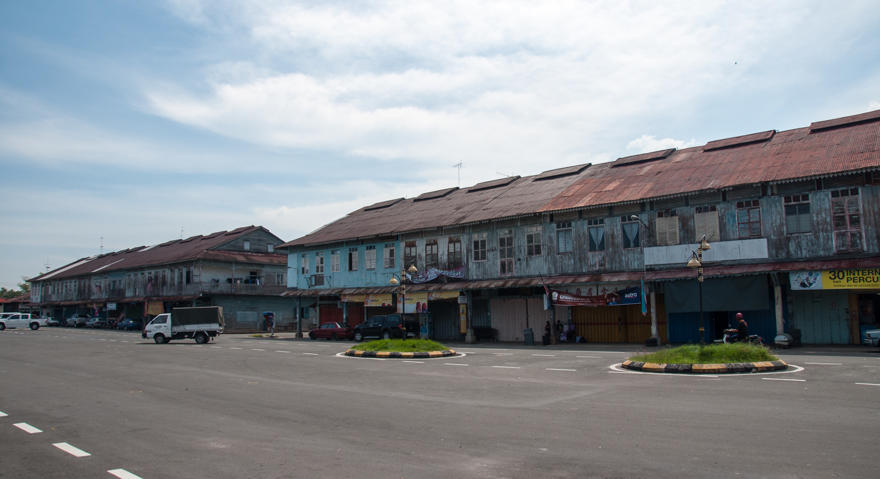 Old Shophouse in Membakut, west of railway, 1930s. Space in foreground for weekly tamu